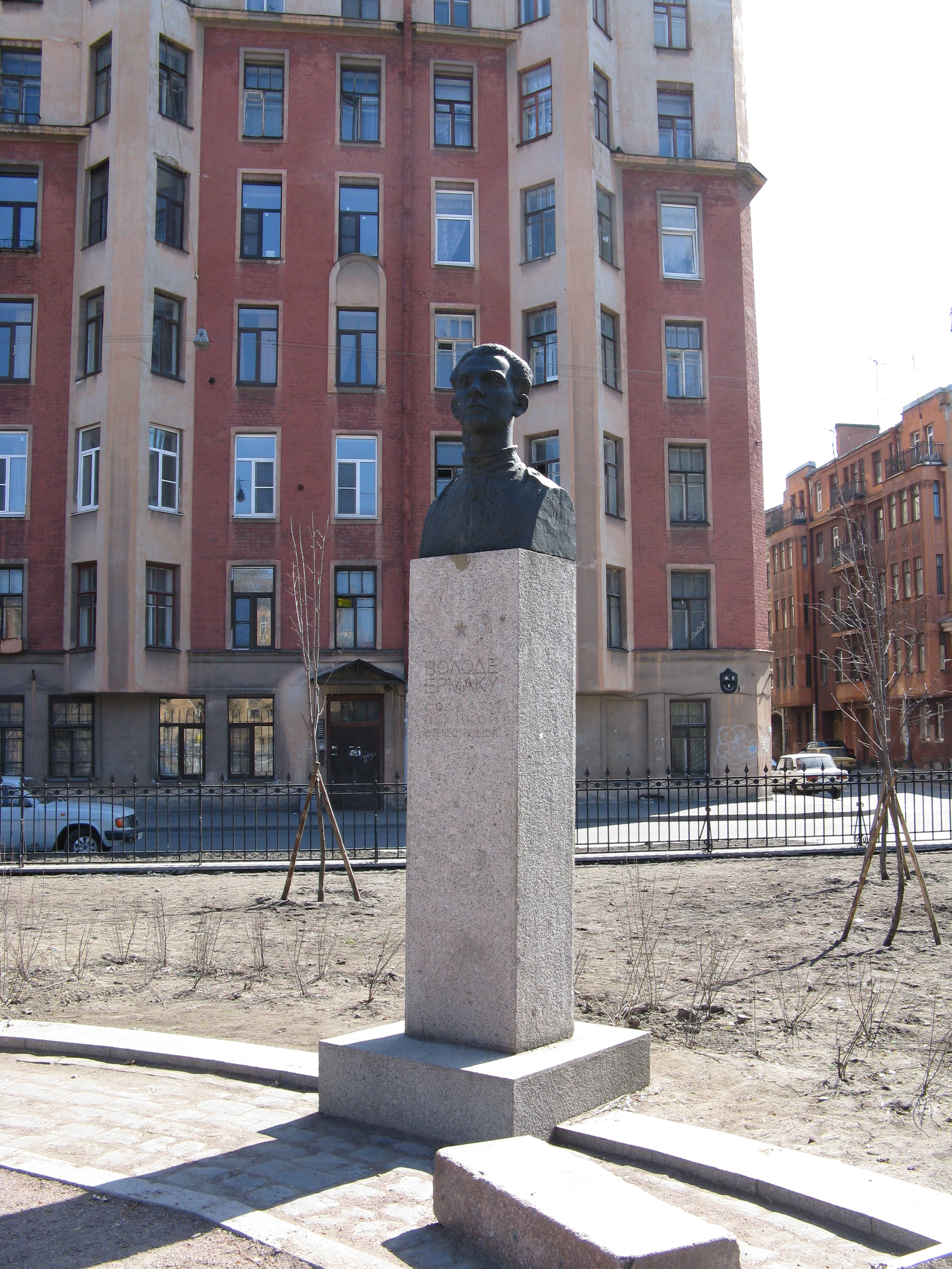 Monument to Vladimir Ermak on Volodi Ermaka Street (Kulibin Square). St.-Petersburg